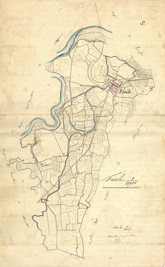 Storic Map of Faule